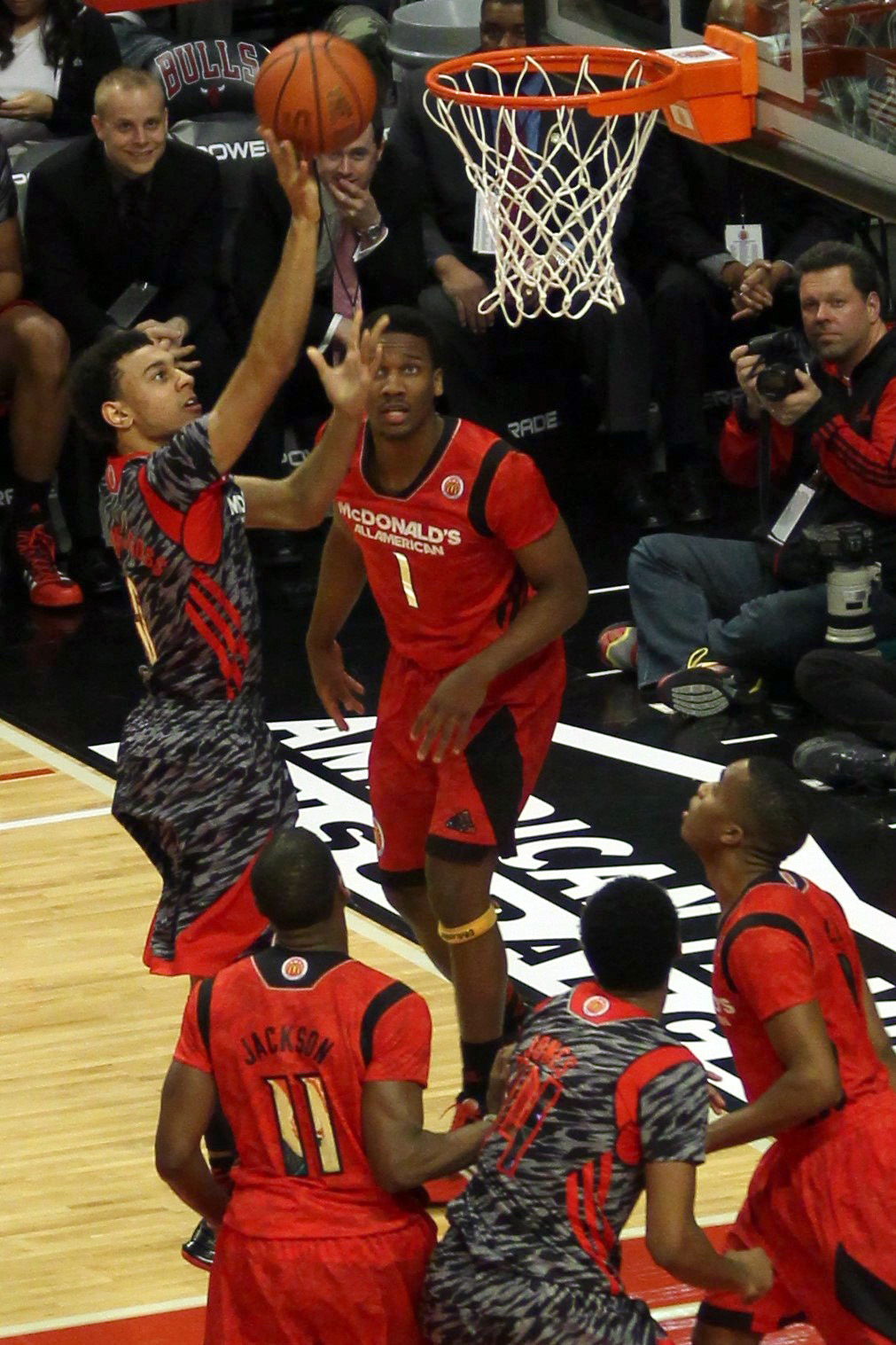 Nigel Williams-Goss at the rim against Wayne Selden, Jr. setting at the rim in the w:2013 McDonald's All-American Boys Game